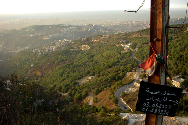 (@ Beirut, Lebanon) Road to Beirut.